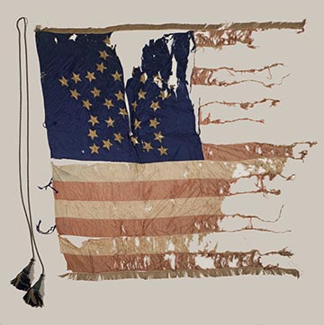 51st Infantry, National Color, 1861 Presentation. Most of the soldiers in the 51st were prior members of the 4th PA three-month volunteers. The 4th PA received the first national color on April 20, 1861 from Judge Daniel G. Smyser of Norristown and it was then used by the 51st.The flag was carried until after the Battle of Antietam.